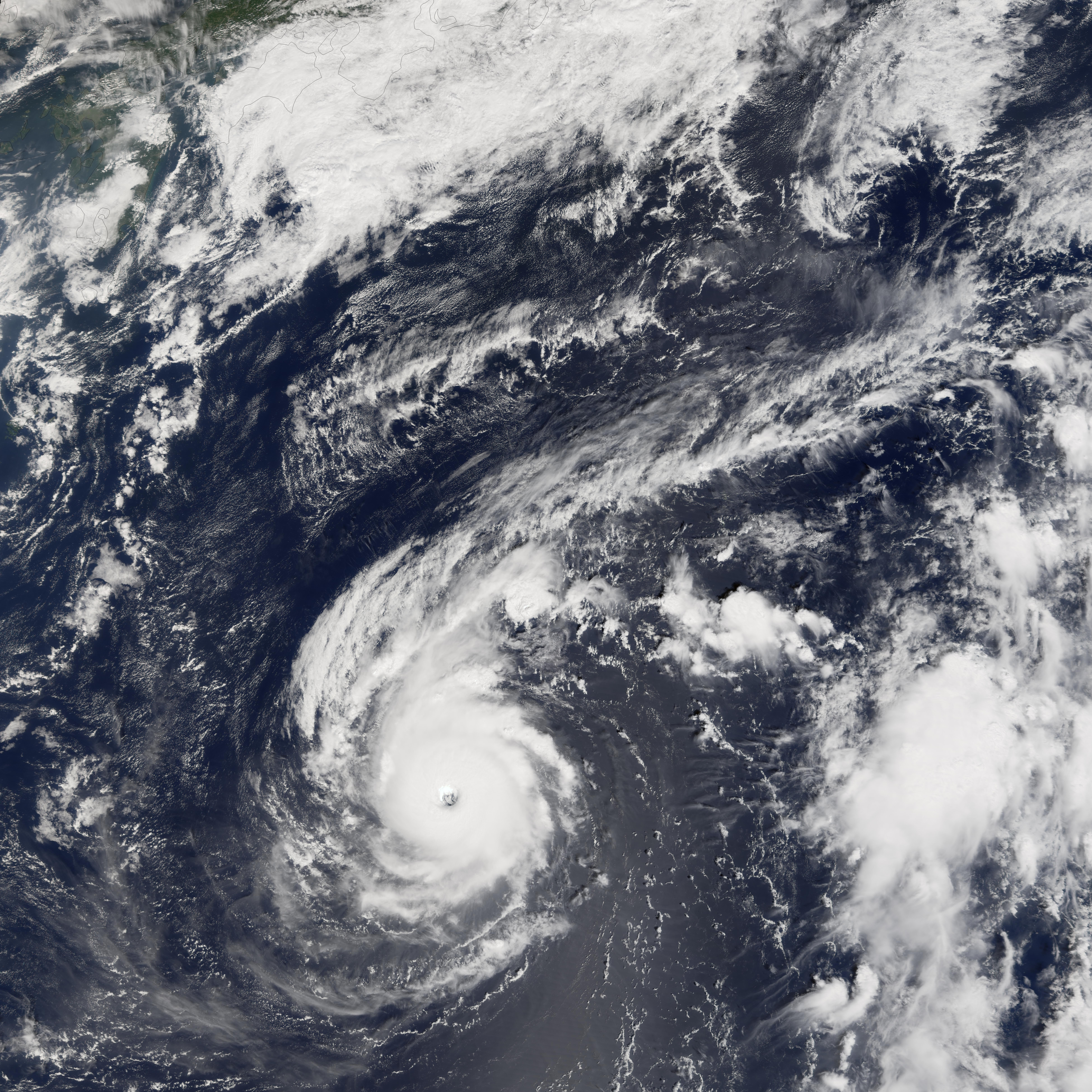 Typhoon Longwang was a small but well-organized and powerful storm system when the Moderate Resolution Imaging Spectroradiometer (MODIS) on NASA’s Terra satellite captured this image at 10:30 a.m. local time, on September 28, 2005. At the time of this MODIS observation, Longwang was 900 kilometers (590 miles) from Okinawa and a comparable distance south of Honshu (the main island in the Japanese chain at the top of this image). It was travelling roughly westward towards the Chinese coast on a track that would take it through the southern fringe of the Japanese islands. Typhoon Longwang had sustained winds of 200 kilometers per hour (125 miles per hour) near the storm’s center, and it was projected to continue to strengthen slightly in the following days.